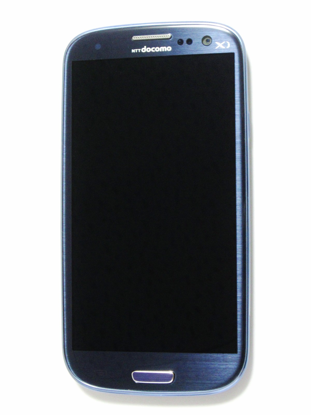 docomo GALAXY S III SC-06D (by Samsung Electronics).